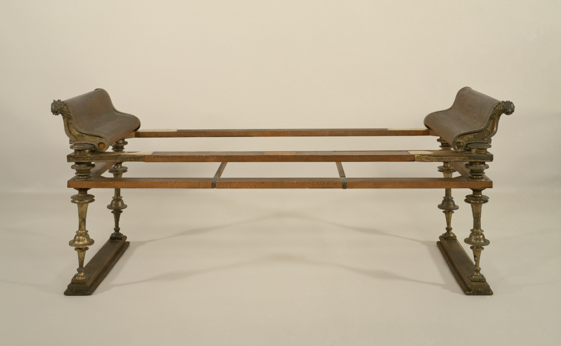 The dining room, or "triclinium," of a Roman house derived its name from the three couches that were grouped at right angles to one another in a U-shape. Wealthy citizens ate while reclining on these couches. On this example, bronze fittings decorate a wood frame (restored). Straps originally would have supported a mattress covered with luxurious textiles. The ends of the couch are decorated with bronze fulcra, the curving ends of the armrests, which terminate in lion heads in the front and duck heads in the back. Couches were highly valued pieces of furniture that were often buried with honored family members.